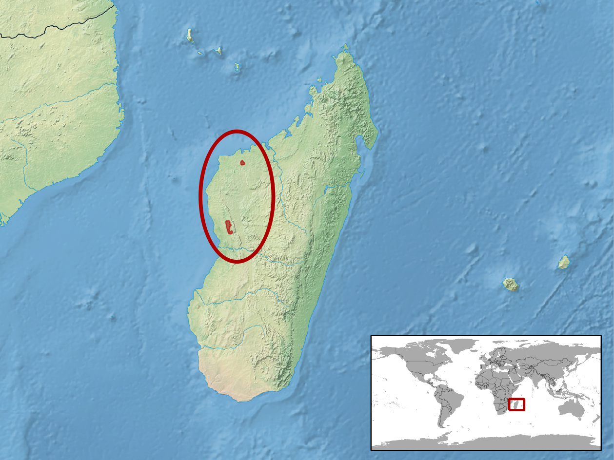 geographic distribution of Paroedura tanjaka (Native: Madagascar)